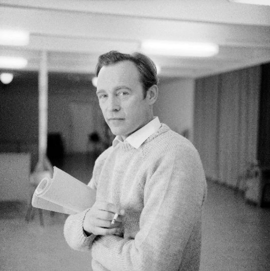 Photograph of the Finnish actor Matti Oravisto (1921–2001).